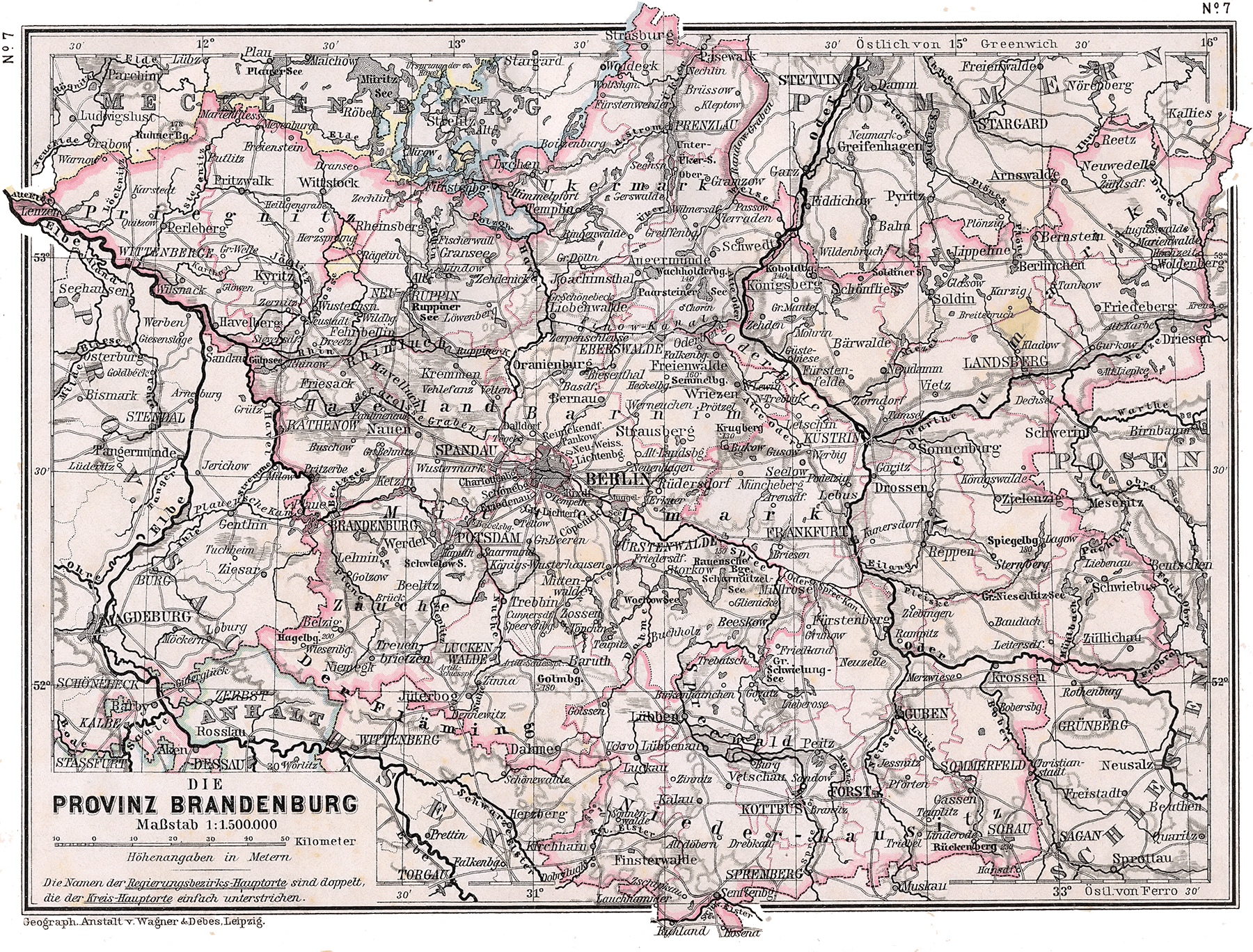 Historical map of Provinz Brandenburg